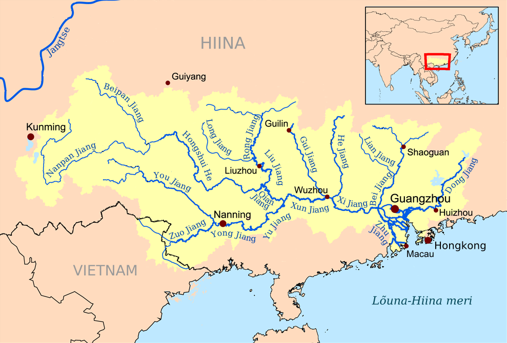 Map in Estonian of the Pearl River drainage basin